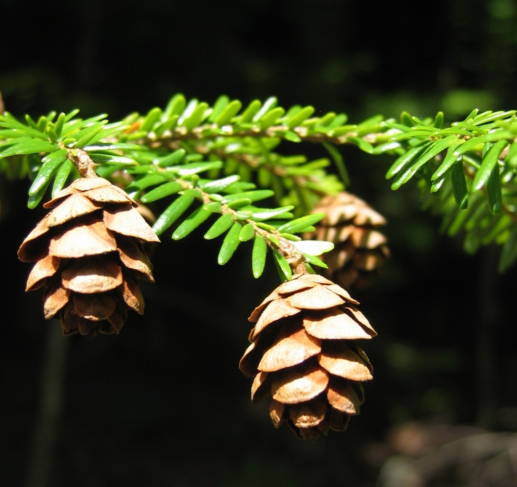 Tsuga canadensis foliage and cones, Maine